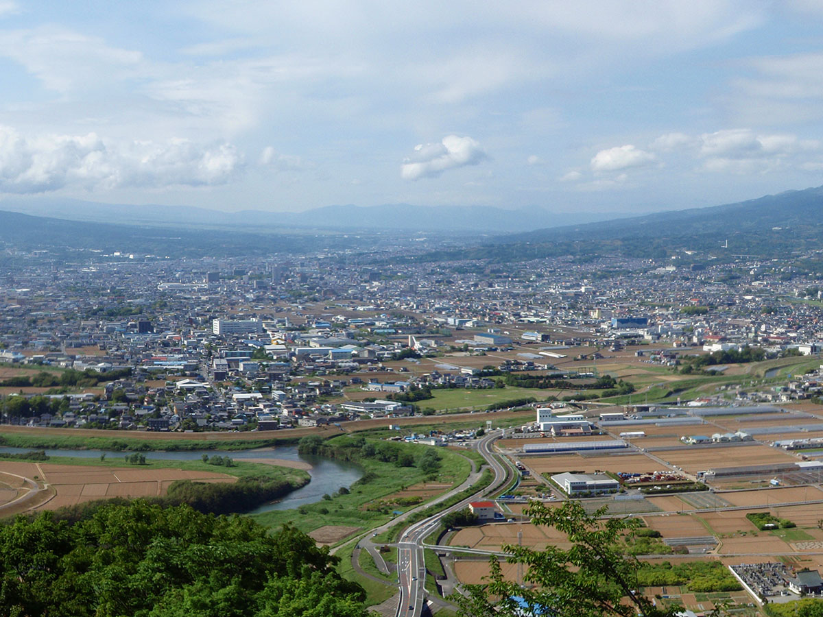 A view of Mishima in Shizuoka Prefecture, Japan.